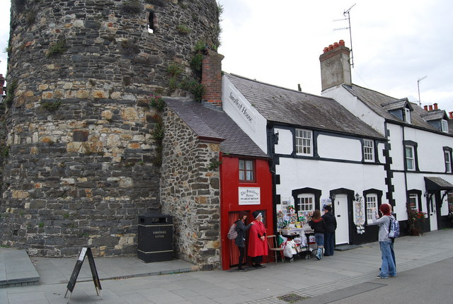 Britain's Smallest House, Conwy Quay Smallest_House_in_Great_Britain